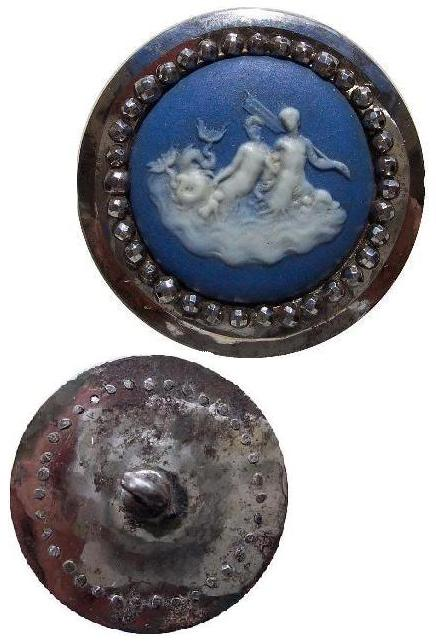 Front & back of steel button, most likely made in England around 1750-1770. It has Matthew Boulton cut steels around a Josiah Wedgwood center showing a Merfamily. There are three merbabies along with the parents riding the wave of the sea. It is a little over 32 mm (1 1/4 in) in diameter. Back of the button shows rivets of the cut steels and a large heavy shank. This button was probably used on a gentleman's wool coat.